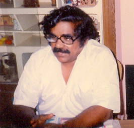 Photo of Late Mr. P.M. Rasamani